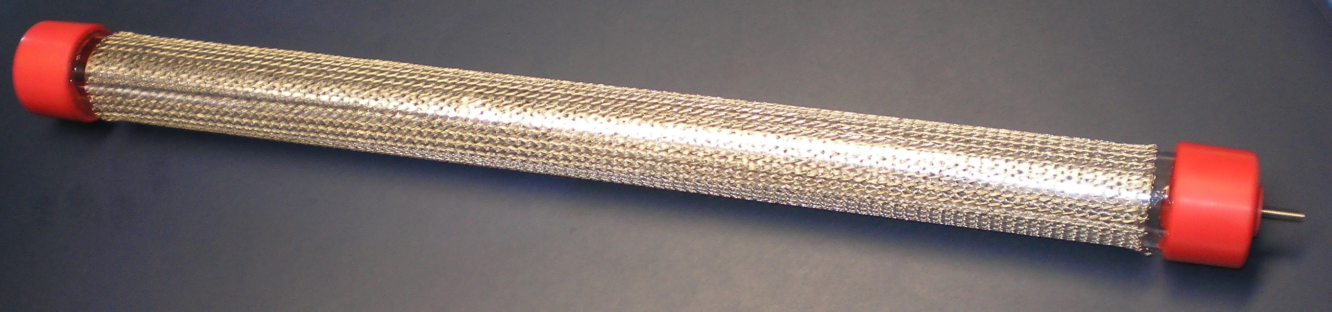 Bipolar Ionize Tube for air purifiers in HVAC systems and standalone-systems